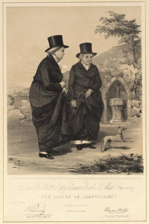 A portrait from the Welsh Portrait Collection at the National Library of Wales. Depicted person: Ladies of Llangollen